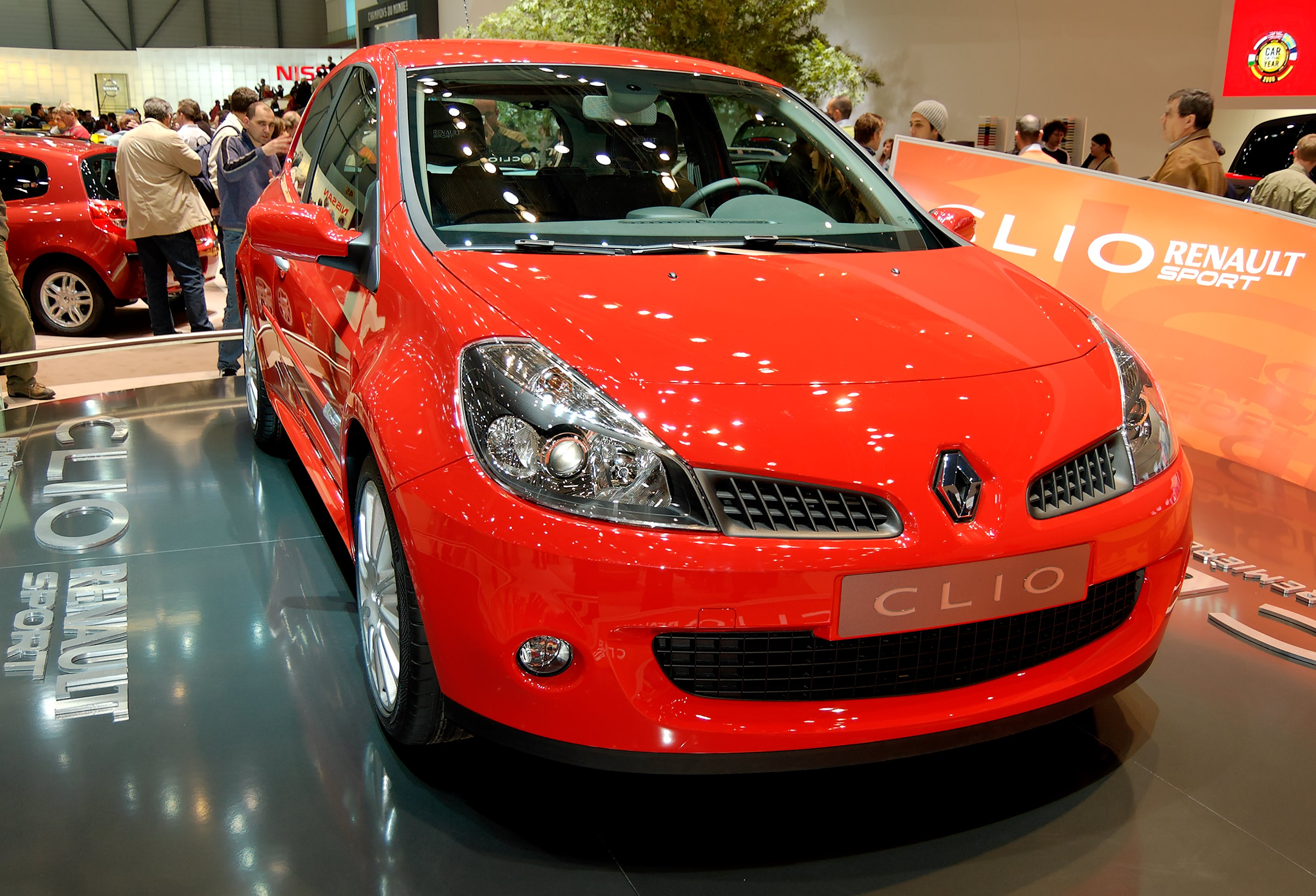 Renault Clio Sport at the 2006 Salon International de l'Auto